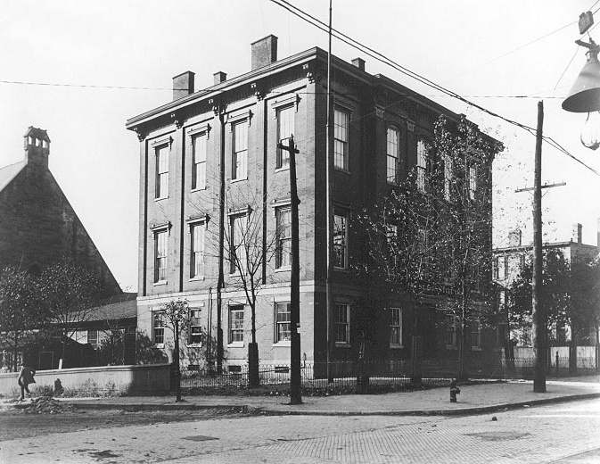 The Linsly Institute Building (erected in 1858) in Wheeling, West Virginia served as the first West Virginia capitol building from statehood in 1863 until March 28,1870 when the capitol transferred to Charleston. The Linsly Institute Building was briefly utilized as West Virginia's capitol building when Wheeling again became the state's capital city in 1875.